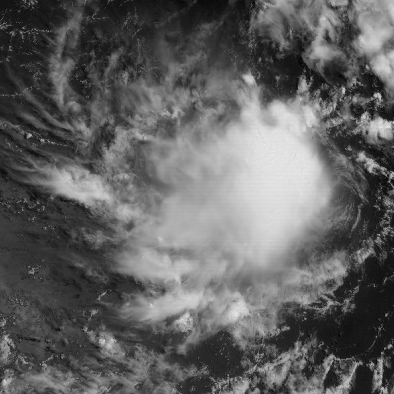 This image shows Tropical Storm Gilma (2006) in the Pacific Ocean at 1800 UTC on August 1, 2006